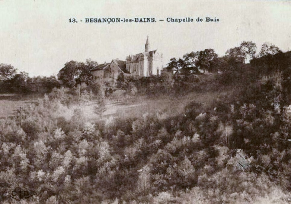 The Chapelle des Buis (Chapel of Boxwoods) in the 1930's. She's located in the south of Besançon (Doubs, France)